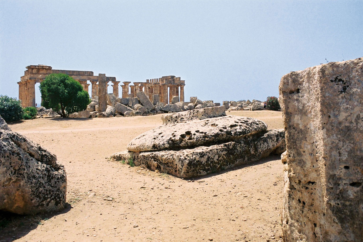 Selinunte (Sicily): View from from temple G over temple F to temple E